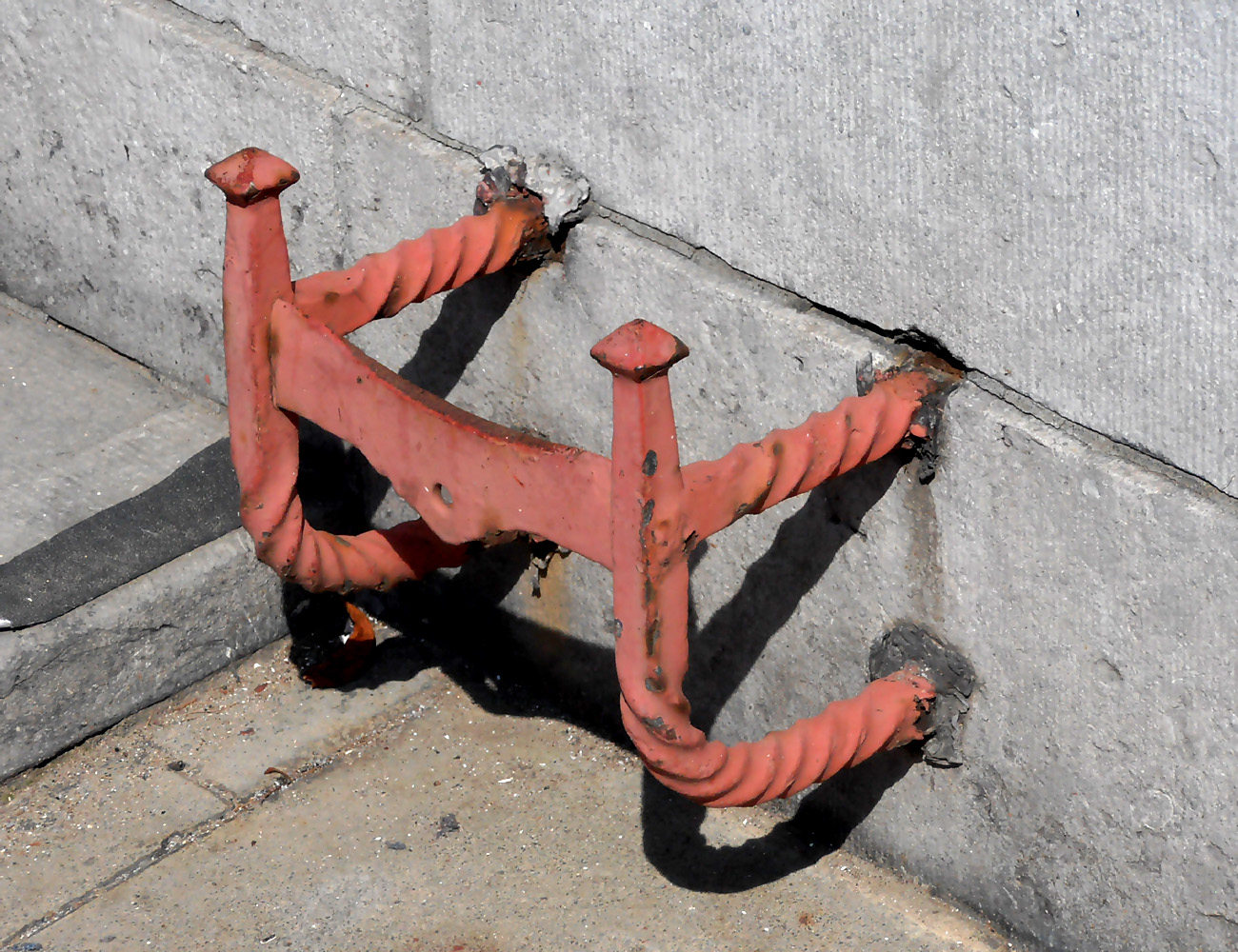 Shoe scraper in Brussels.